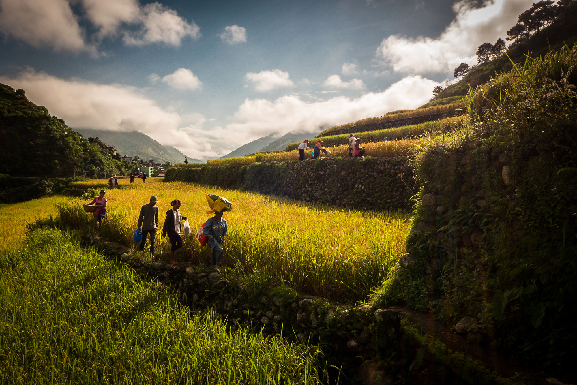 An early morning scene on a rice terraces of Mountain province